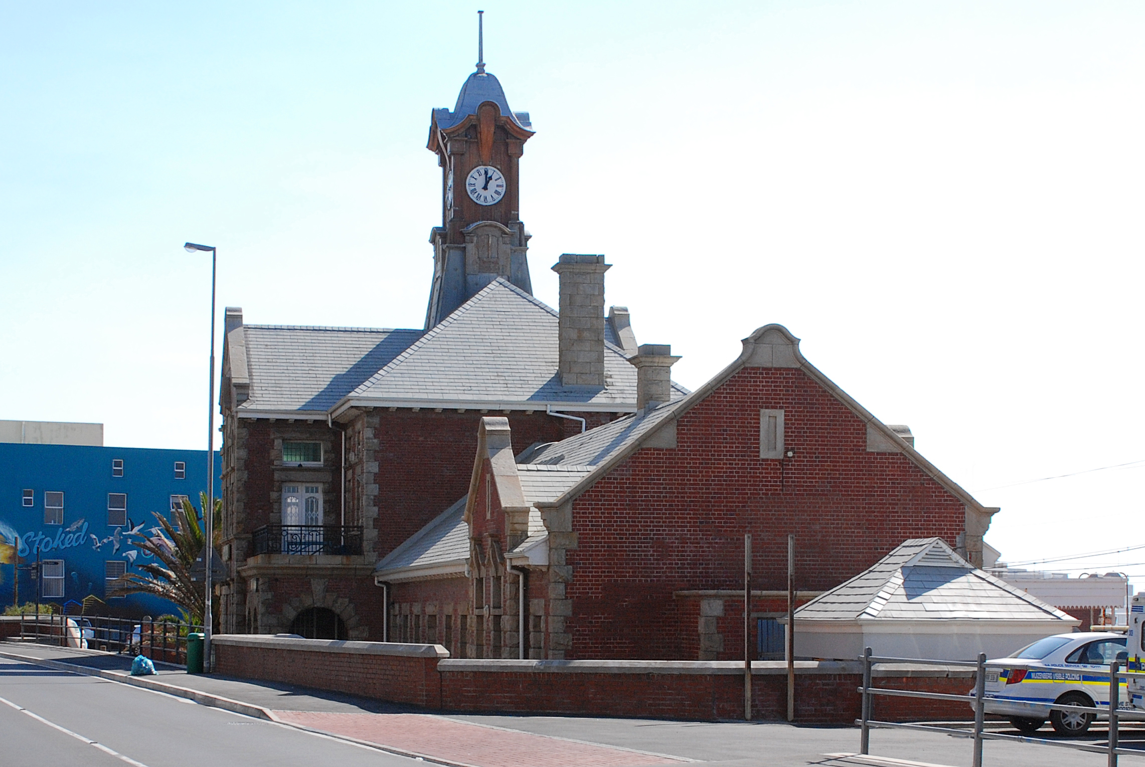 Muizenberg station, Cape Province, South Africa. Detail.